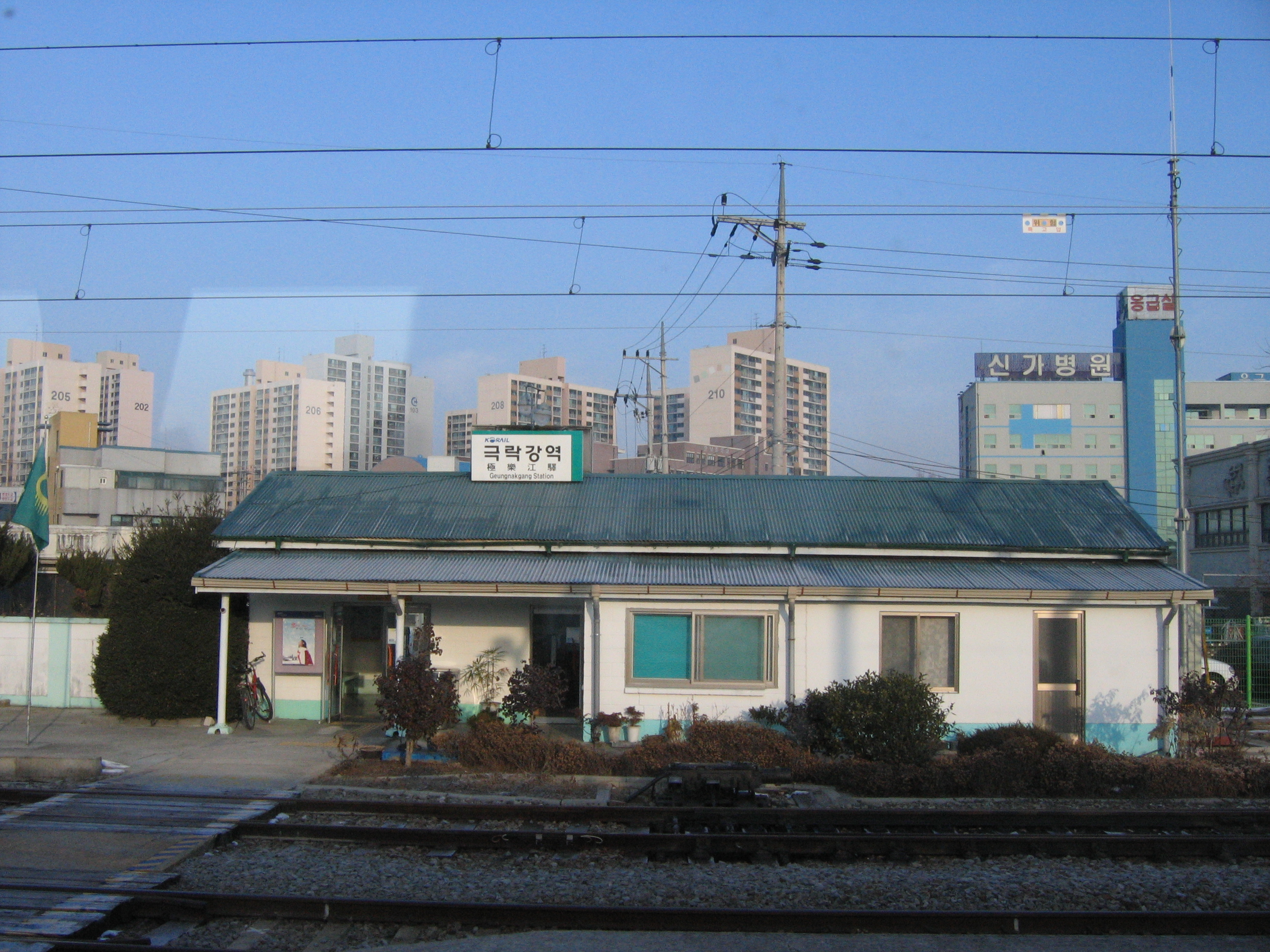 Korail Geungnakgang station building.